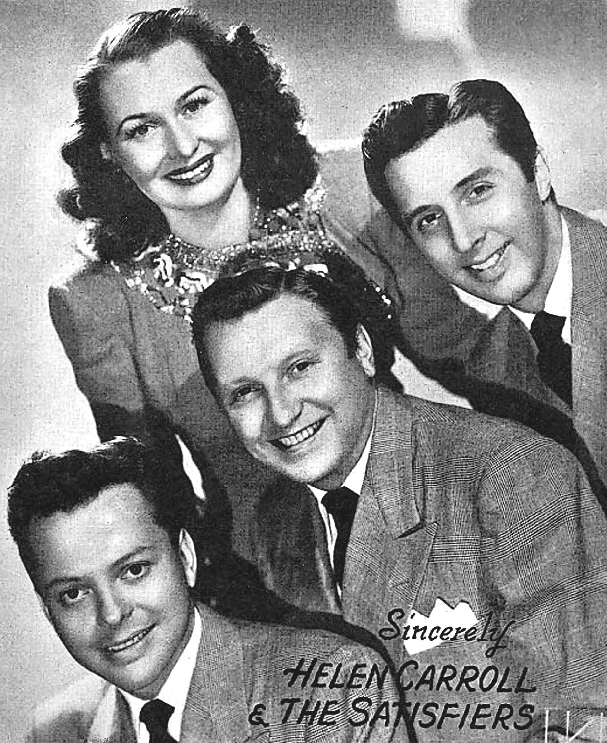 Photo of Helen Carroll and the Satisfiers from the sheet music "Toolie Oolie Doolie".